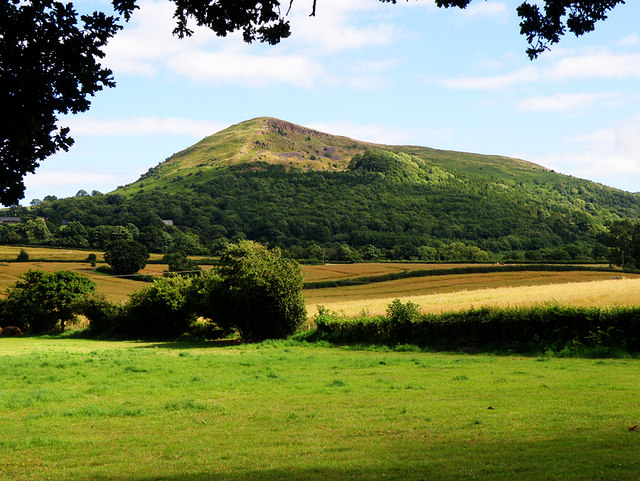 Ysgyryd Fawr View over farmland towards Ysgyryd Fawr (486m)